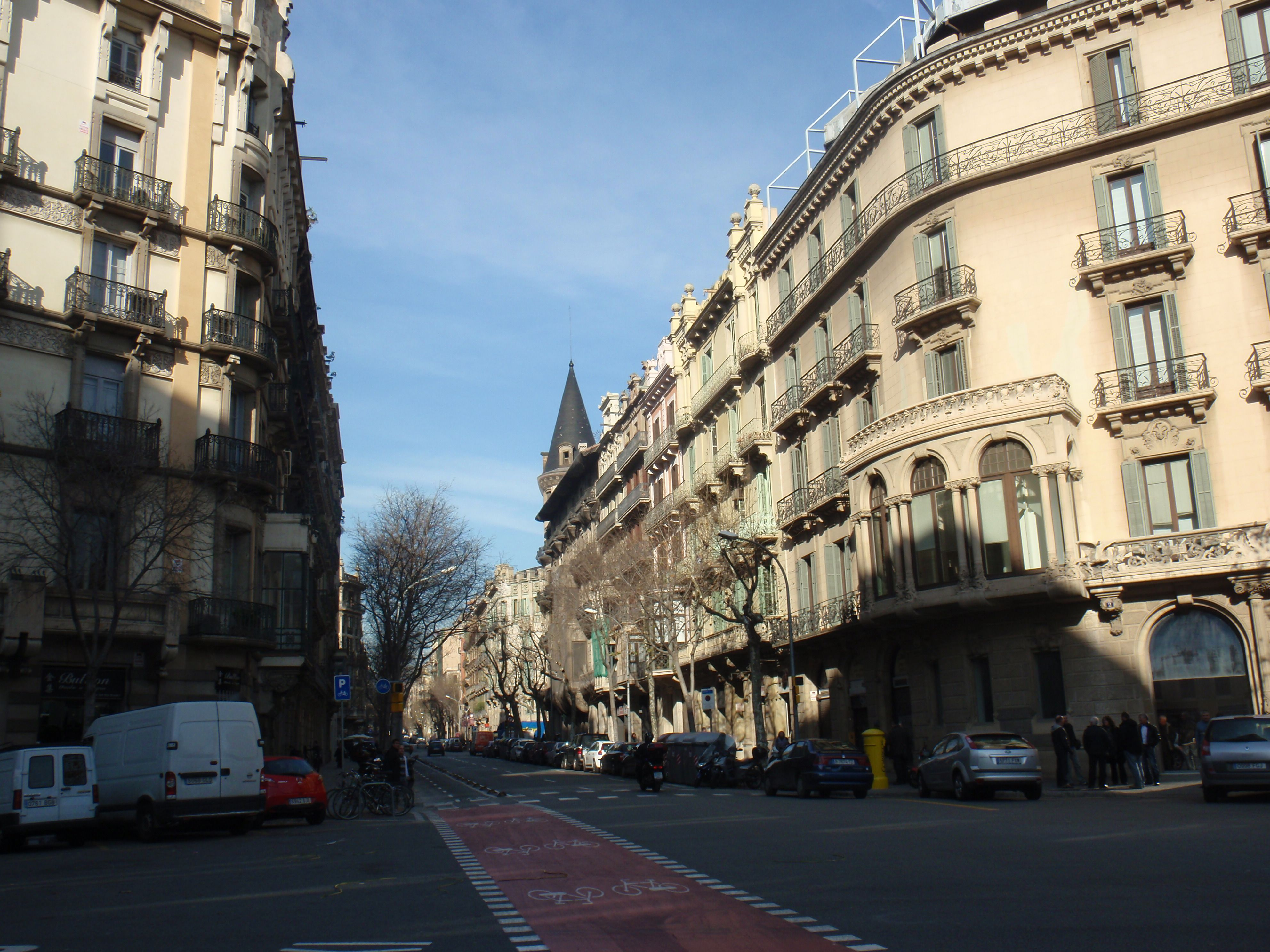 cr. Ali Bey and 1 cr. Girona 2. View towards the cr. Girona. Architect Enric Sagnier and Villavecchia 1898. Residential building of eclectic style.